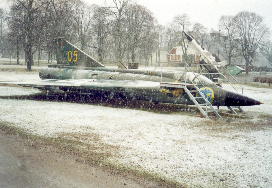 Saab J 35D Draken outside the Swedish Air Force Museum